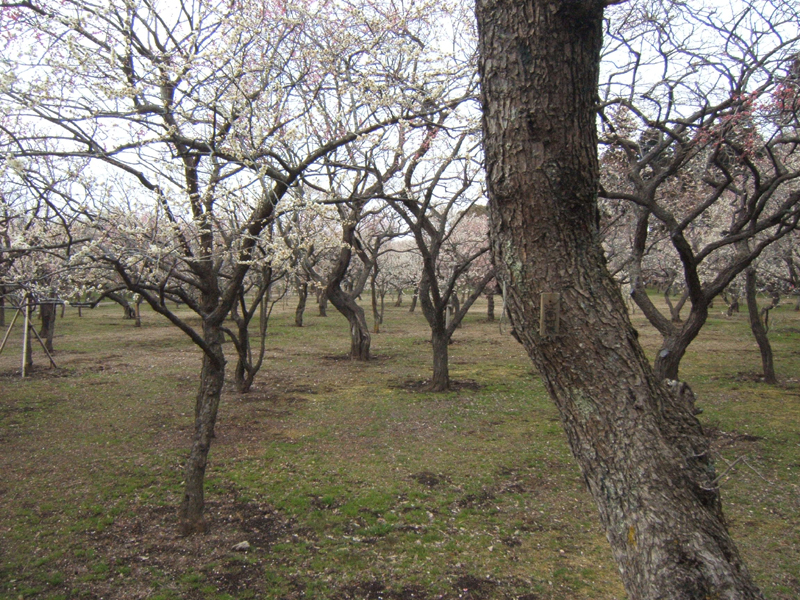 Kairaku-en plum tree forest. Mito, Ibaraki, Japan.